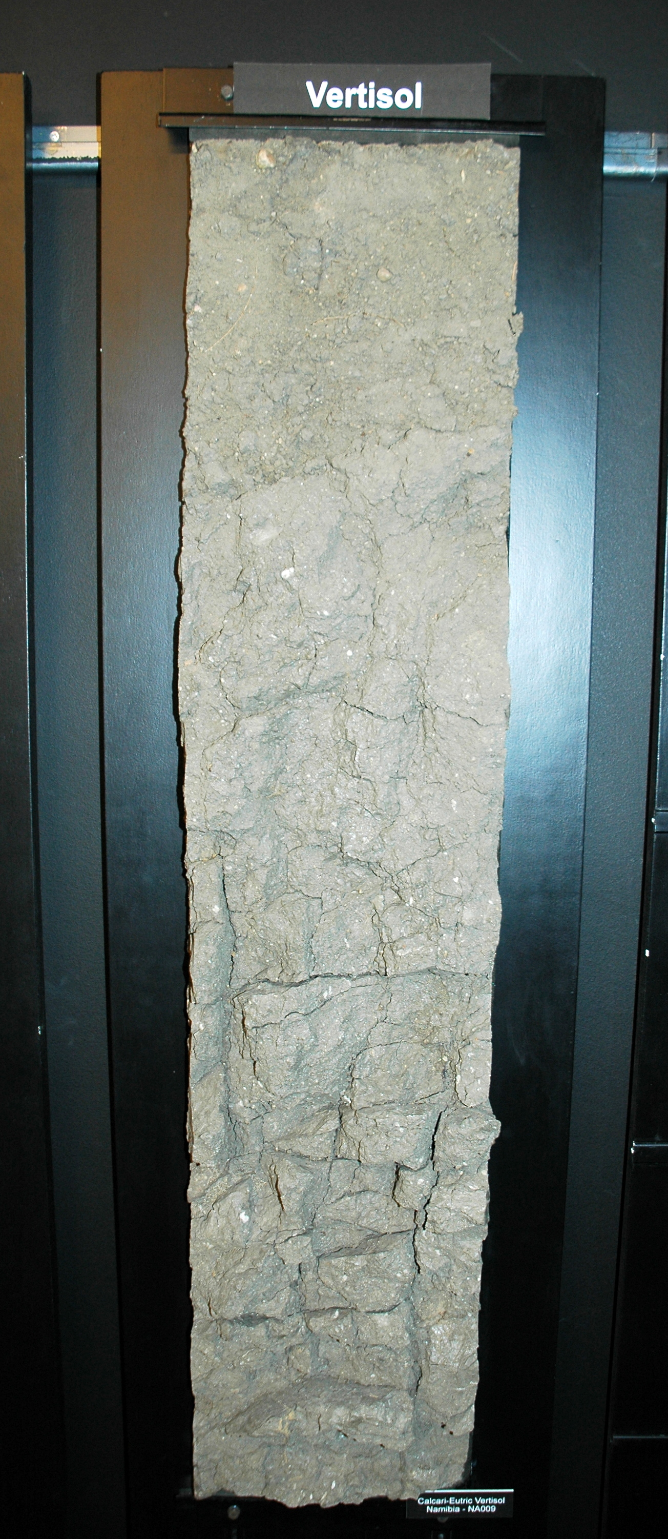 Soil profile of a Calcari-eutric Vertisol